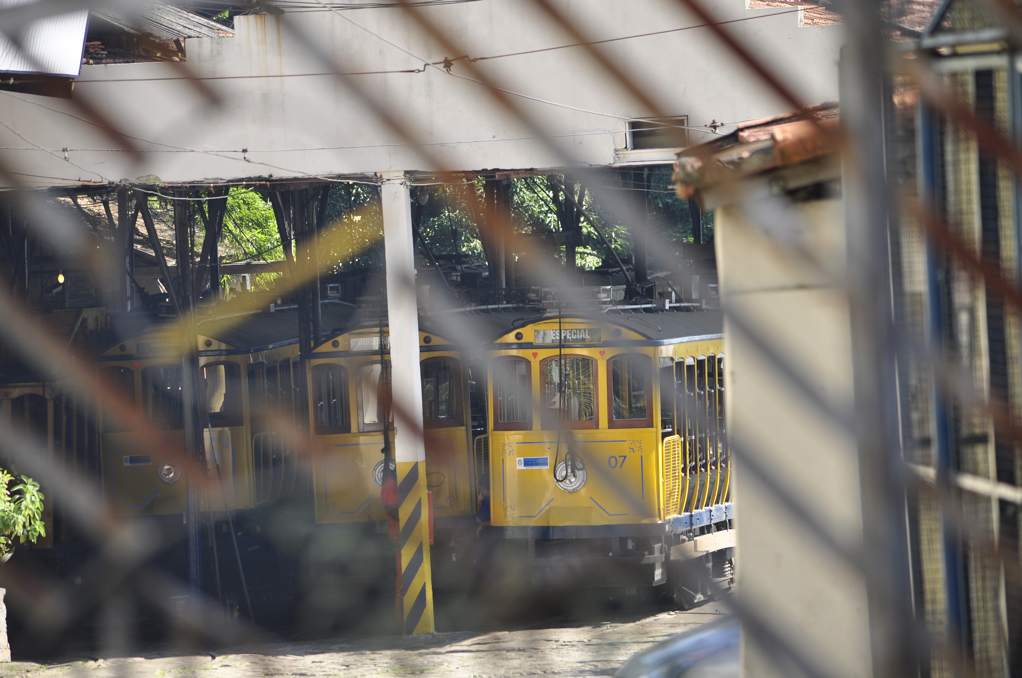 Trams of Rio de Janeiro's Santa Teresa Tramway stored, out of use, in the old depot at the north end of Rua Carlos Brant, in the Santa Teresa neighborhood.